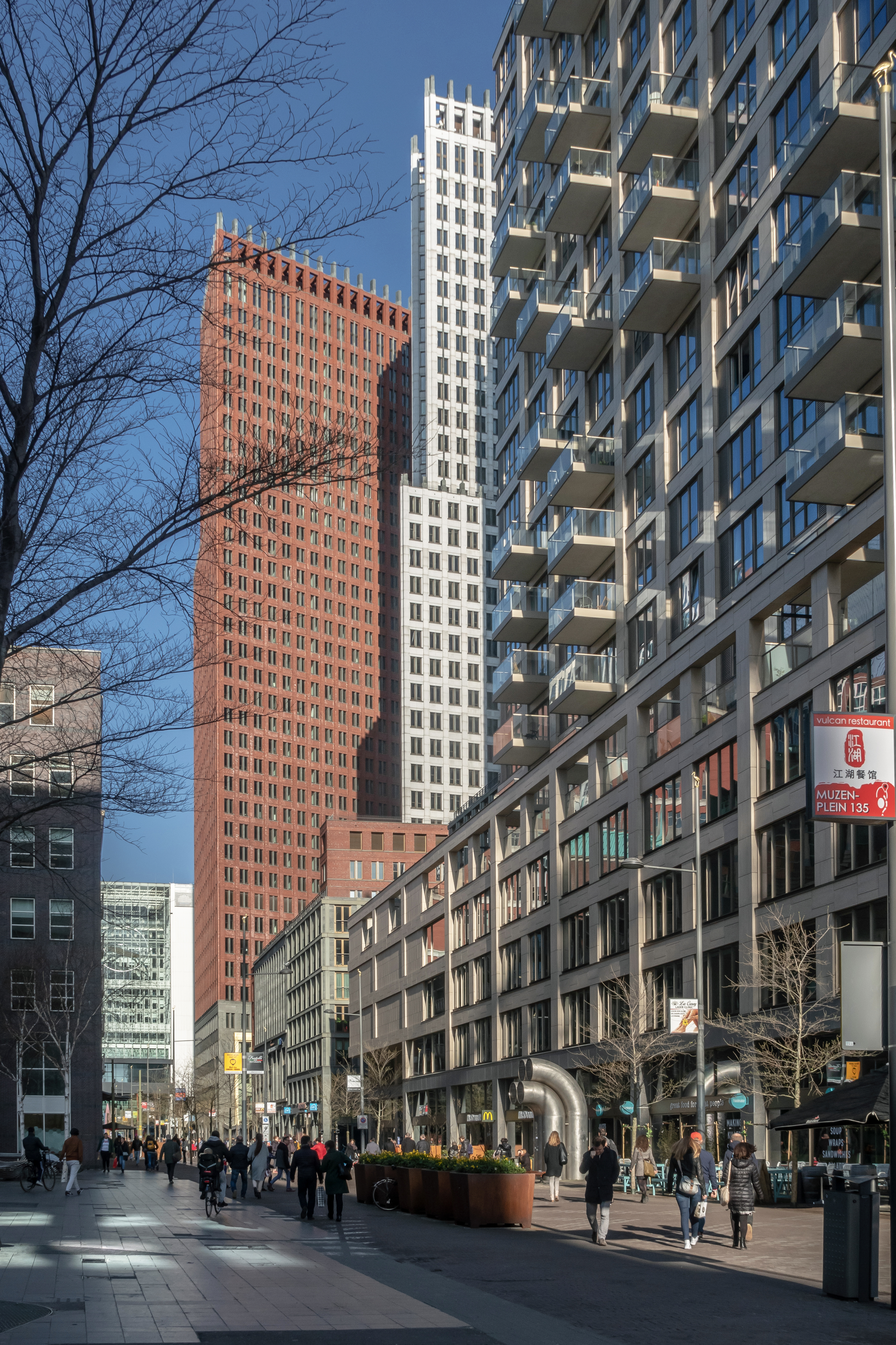 The Hague, street view: the Turfmarkt